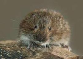 Microtus tatricus, Ukraine